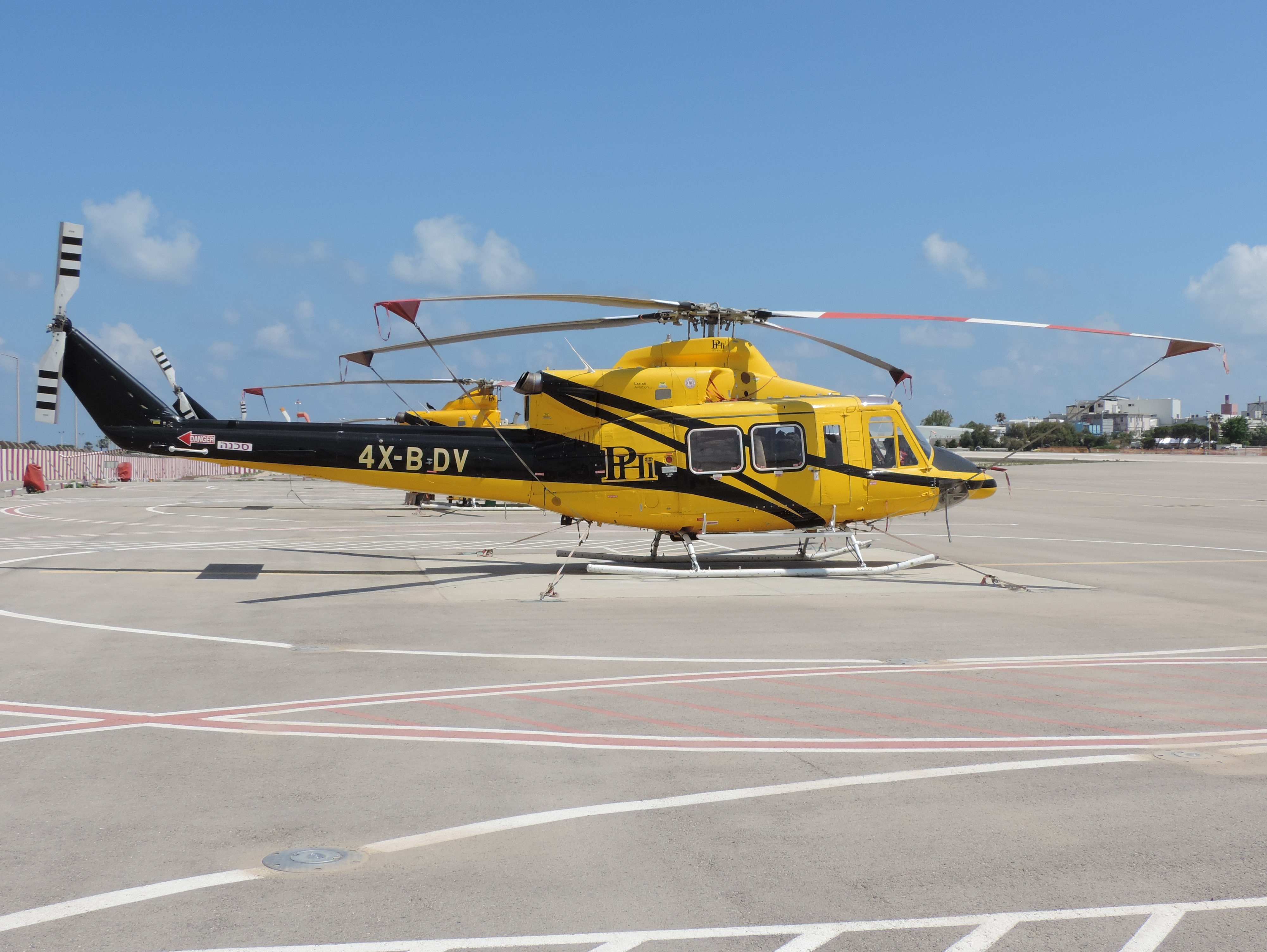 4X-BDV at Haifa Airport.